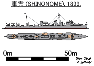 Figure of Japanese destroyer SHINONOME (Sinonome-class), 1899. One of the first destroyers in Japan.